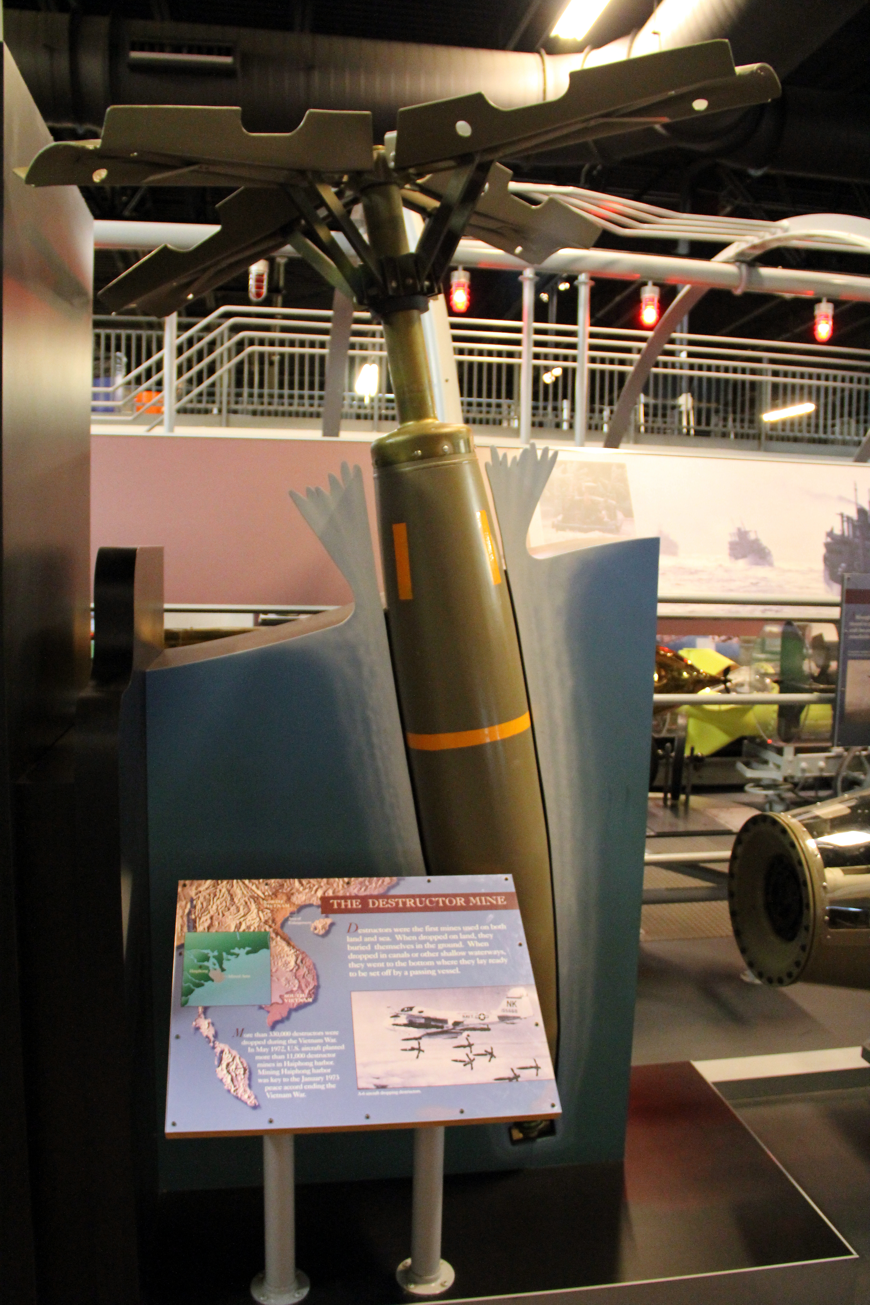 The Destructor Mine